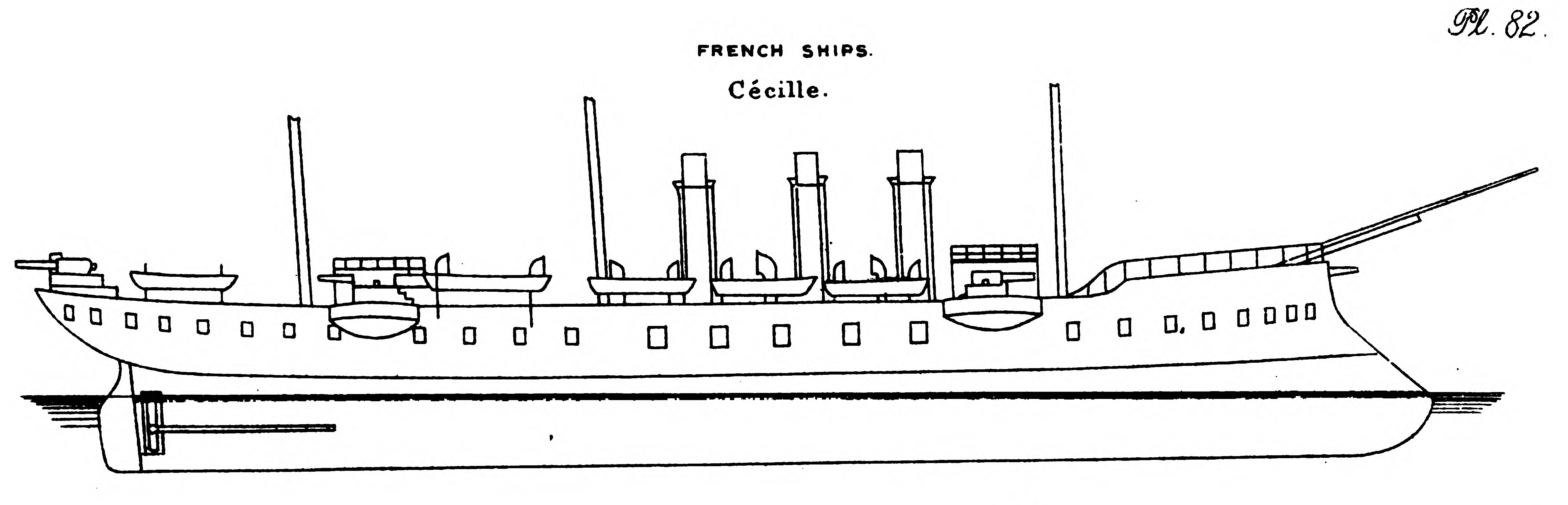 The Naval Annual of 1887 contained this drawing of the French protected cruiser Amiral Cécille, still building at the time, on Plate 82.